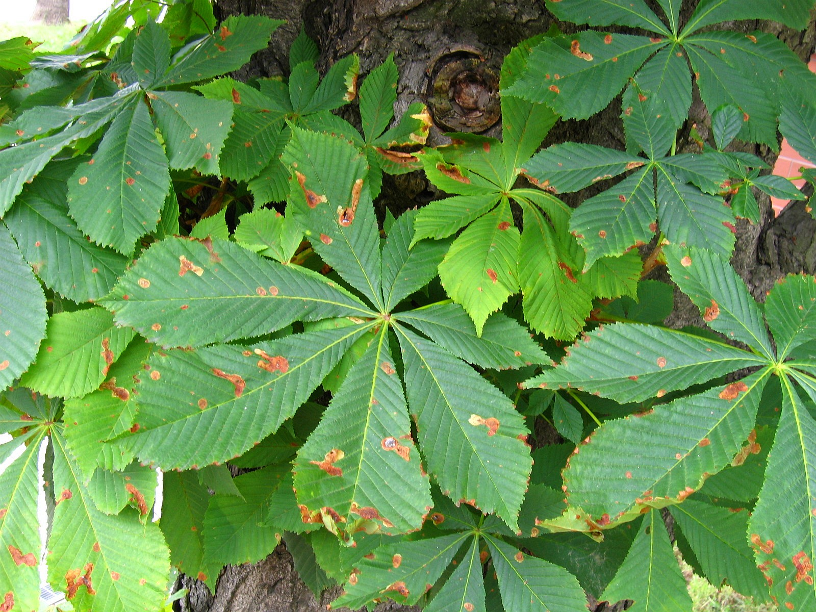 Aesculus hippocastanum, Poland, Wrocław. Tree demaged by Cameraria ohridella.